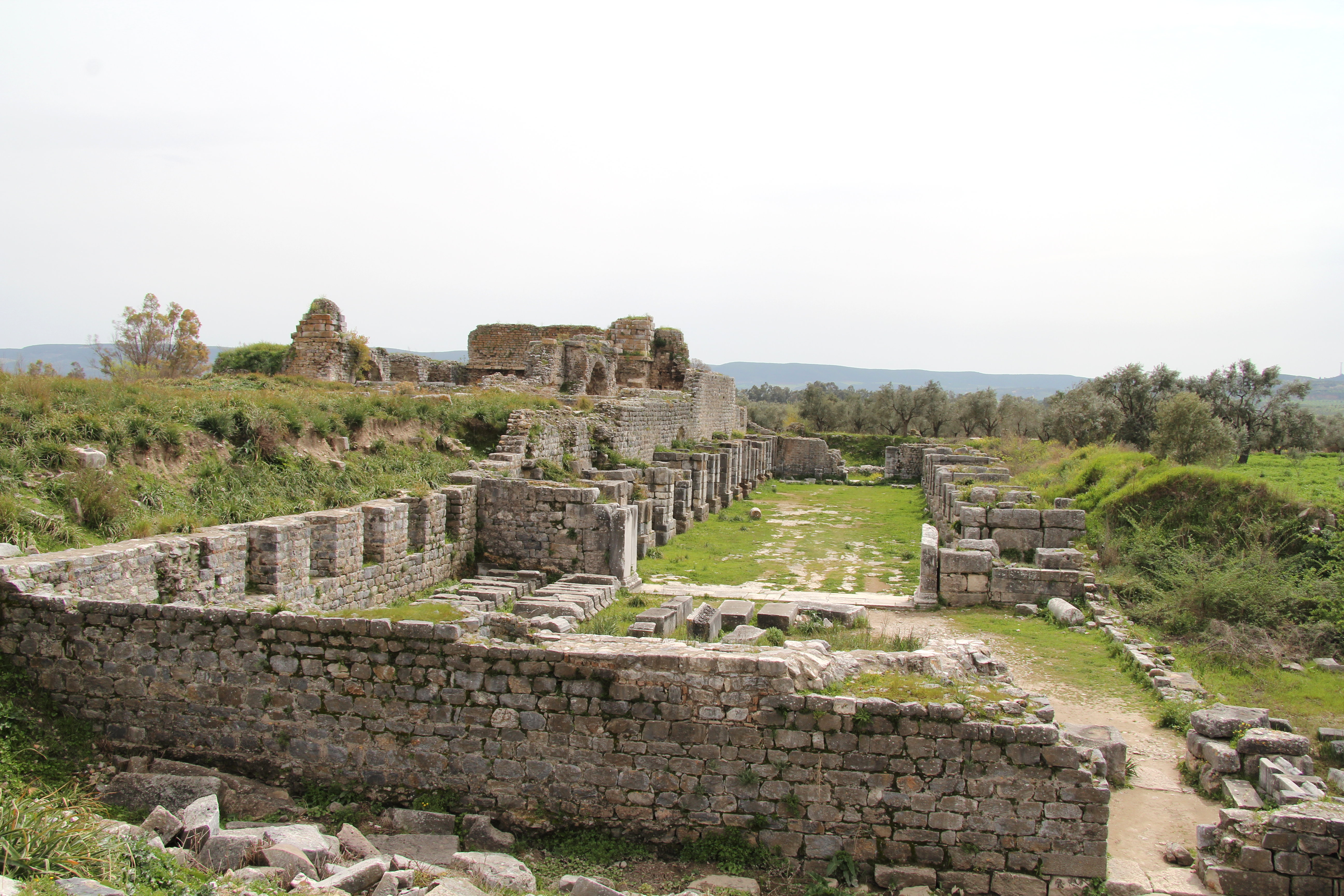 Turkey: Archaeological site of the ancient Greek city of Miletus